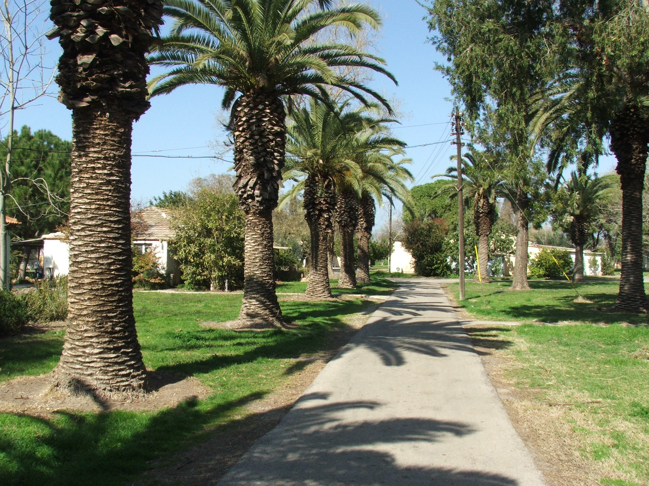 Kibbutz Mishmar Ha'Emeq.